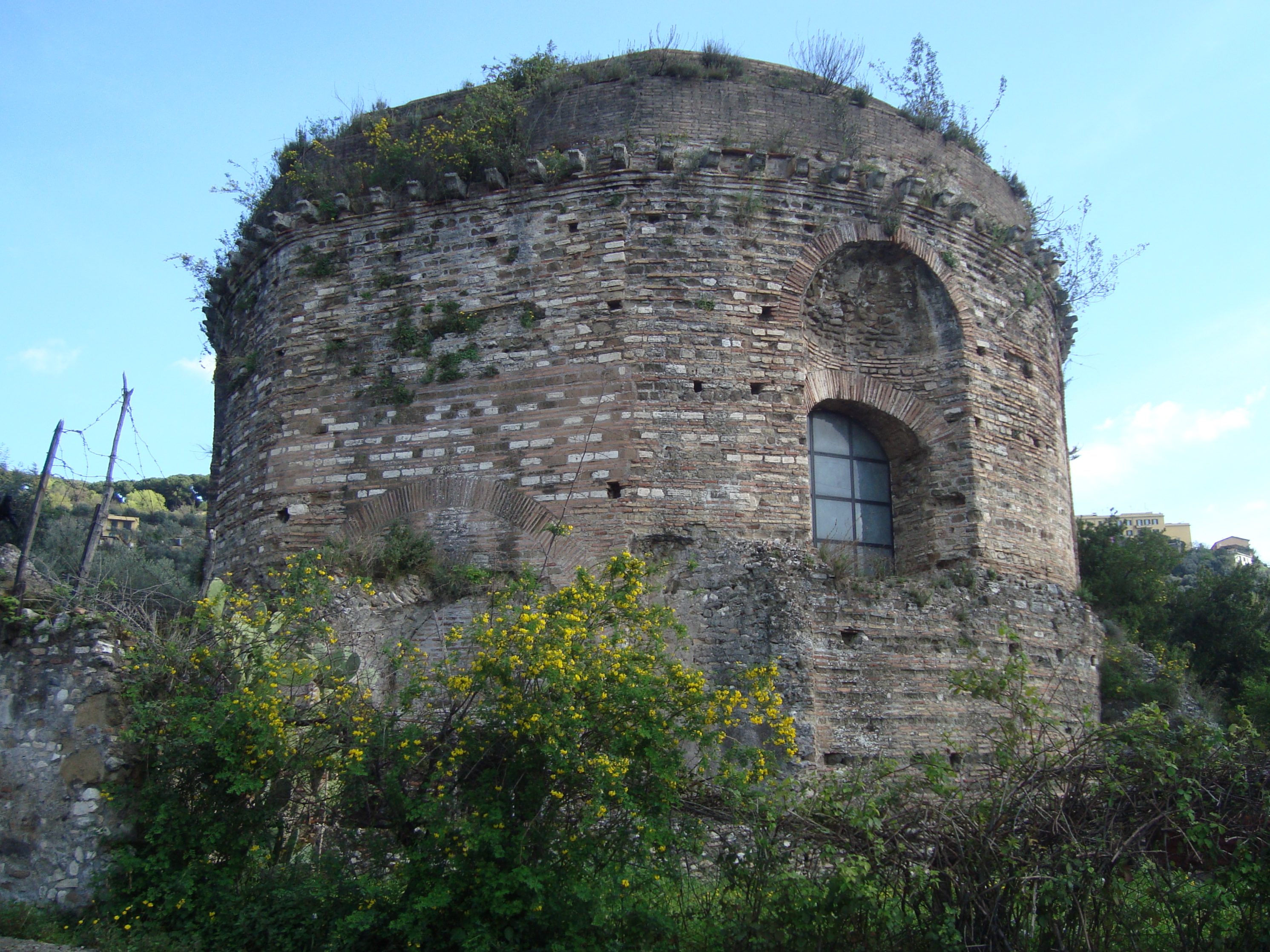 General view of the temple of the Cought in Tivoli